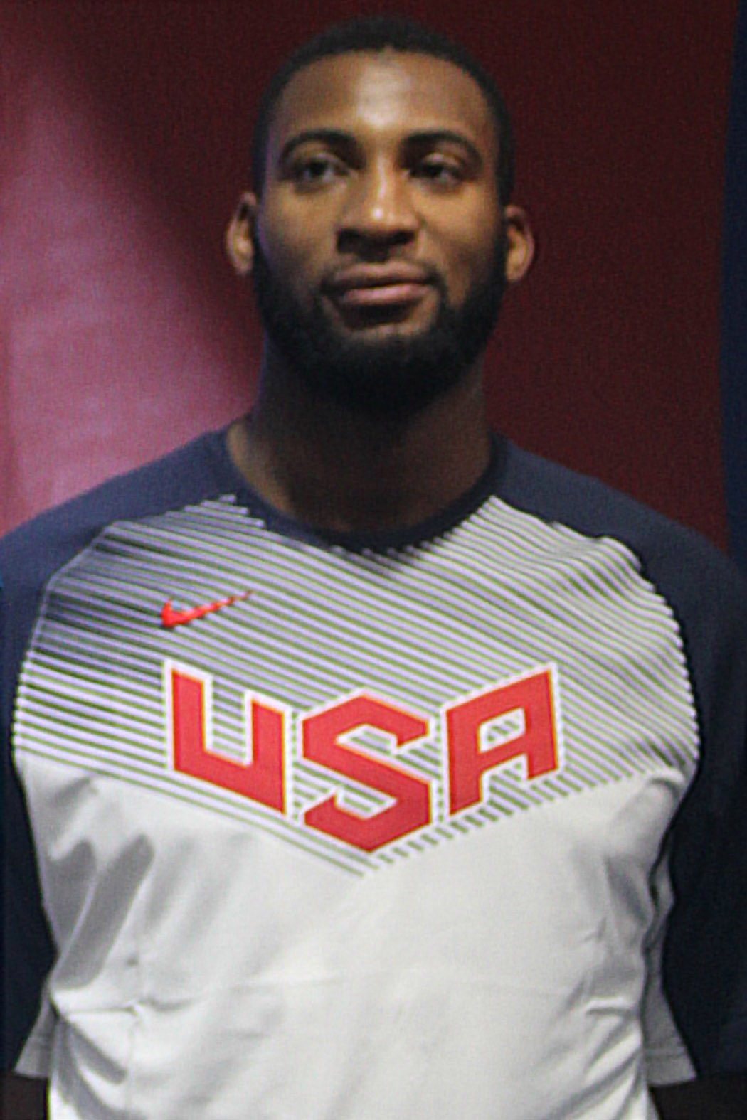 Andre Drummond at 2014 World Basketball Festival at 63rd Street Beach in Chicago